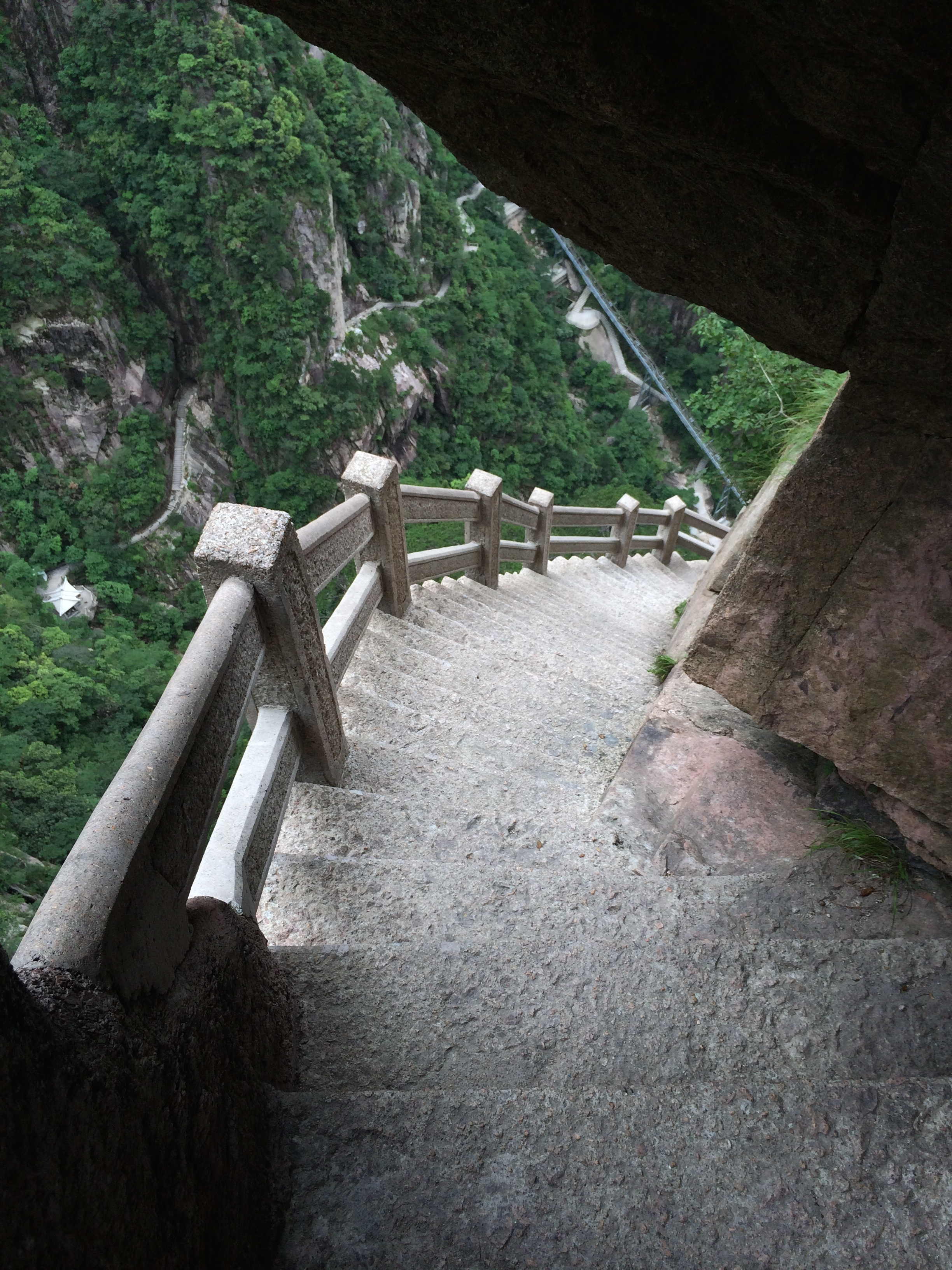 Steep steps downhill